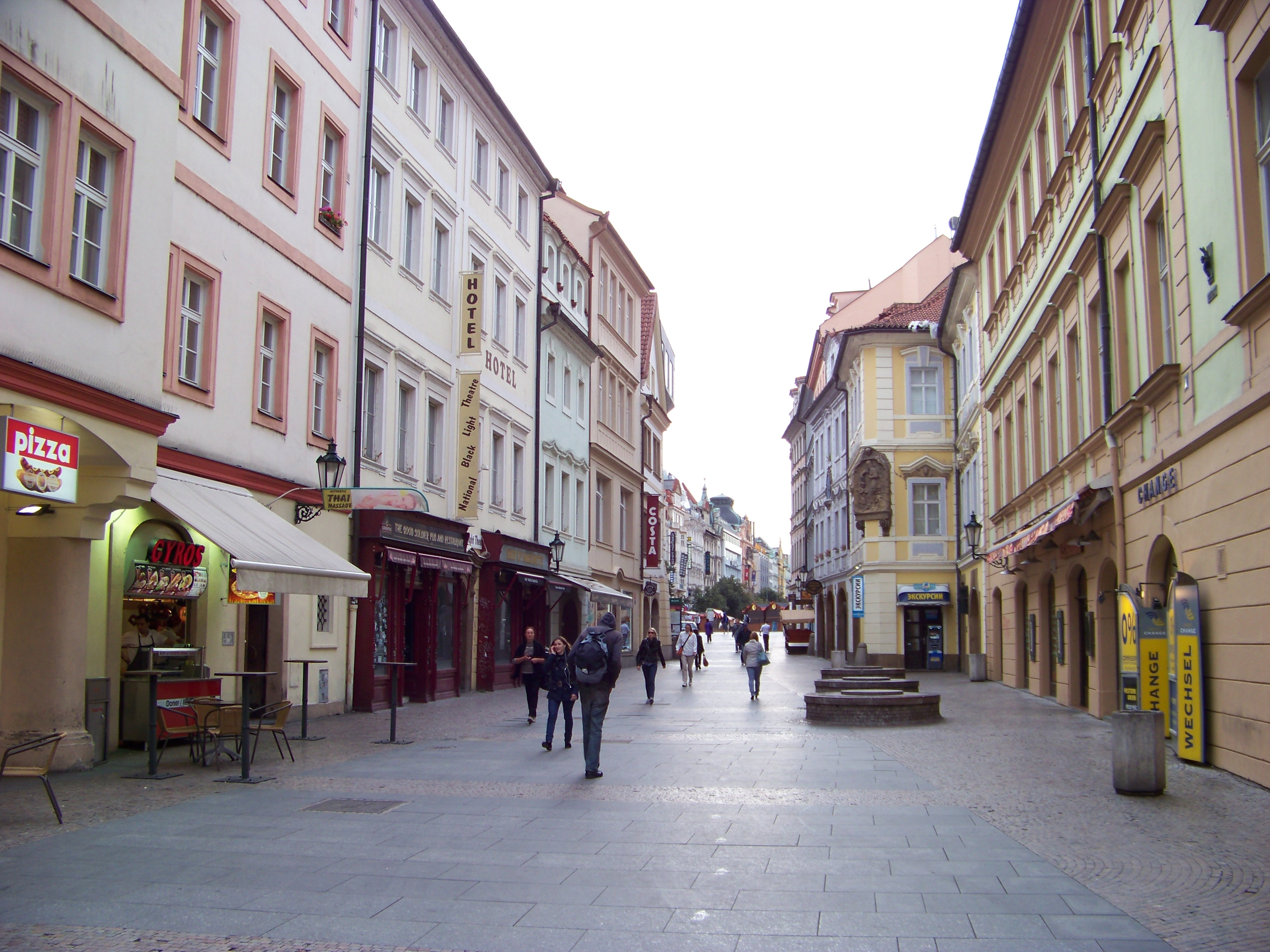 Prague-Old Town. Na můstku street.